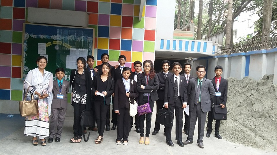 Team ASIS heads to Dhaka Model UN